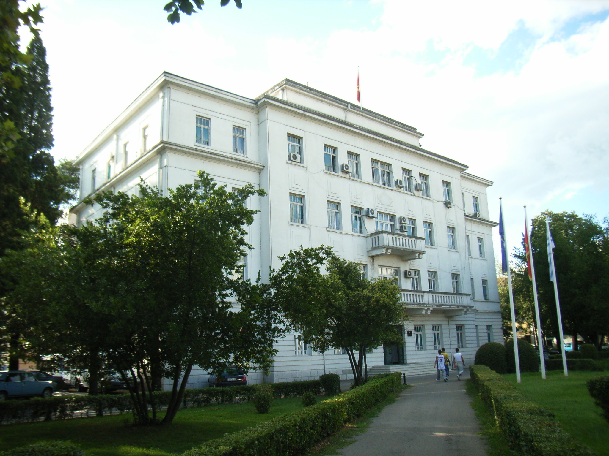 City hall of Podgorica, Montenegro